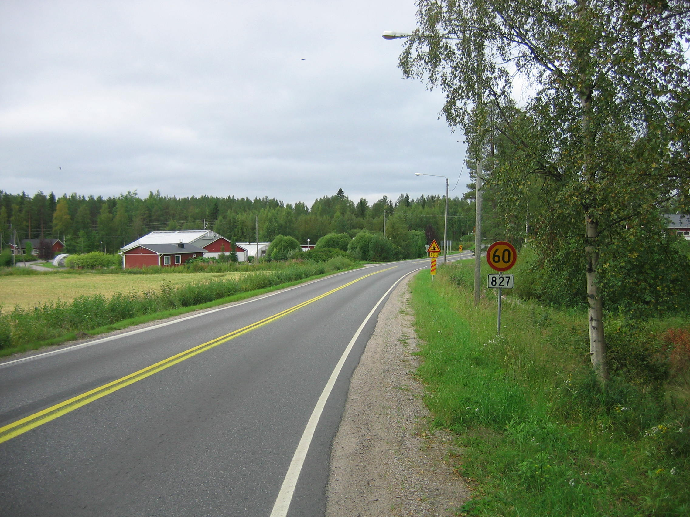 Regional road 827 in Soso, Muhos, Finland, towards Tyrnävä in South-West.